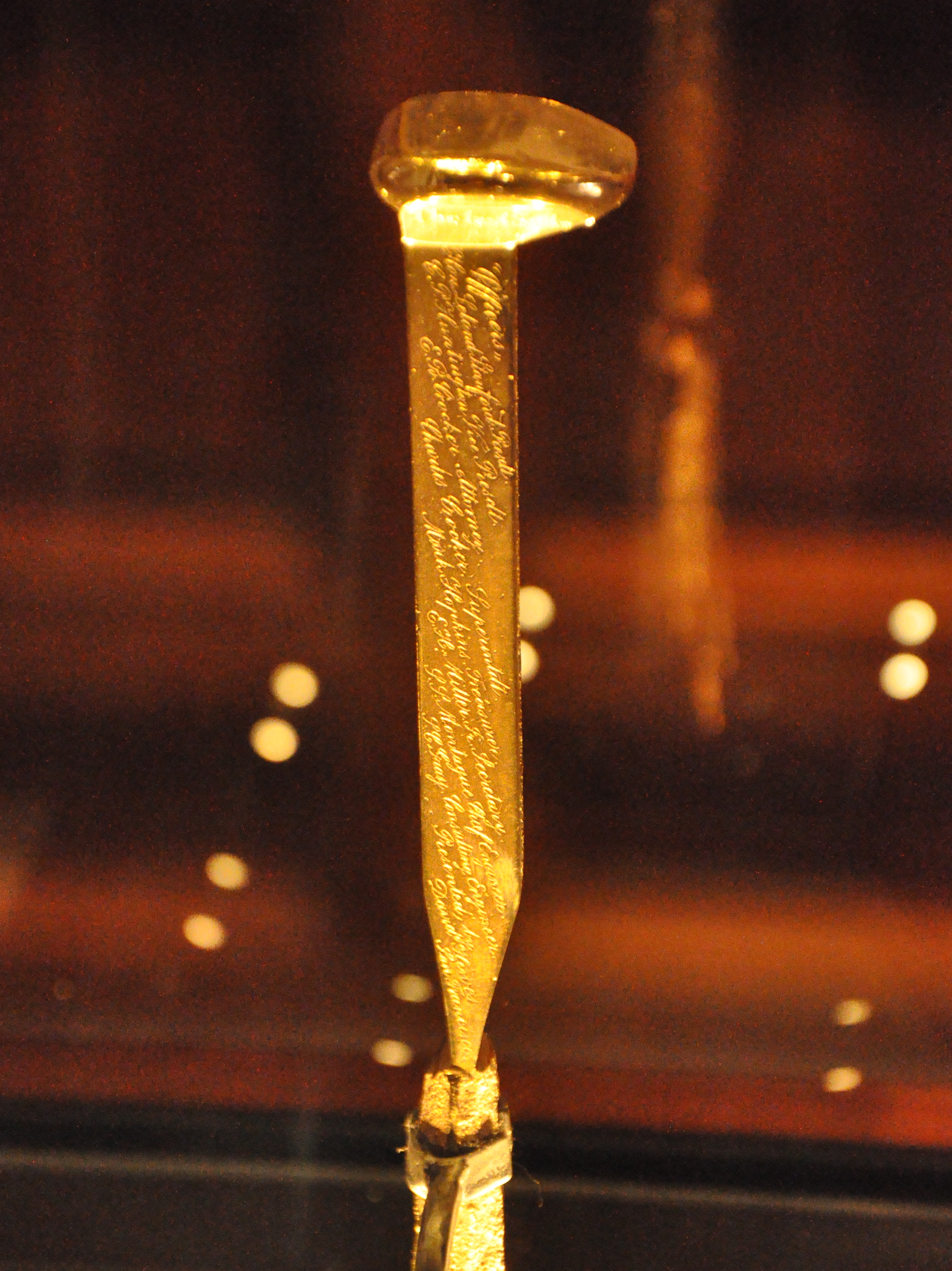 A second "golden spike", identical to the original used in the celebration of the transcontinental railroad in Promontory, Utah, is on display at the California State Railroad Museum in Sacramento, California.